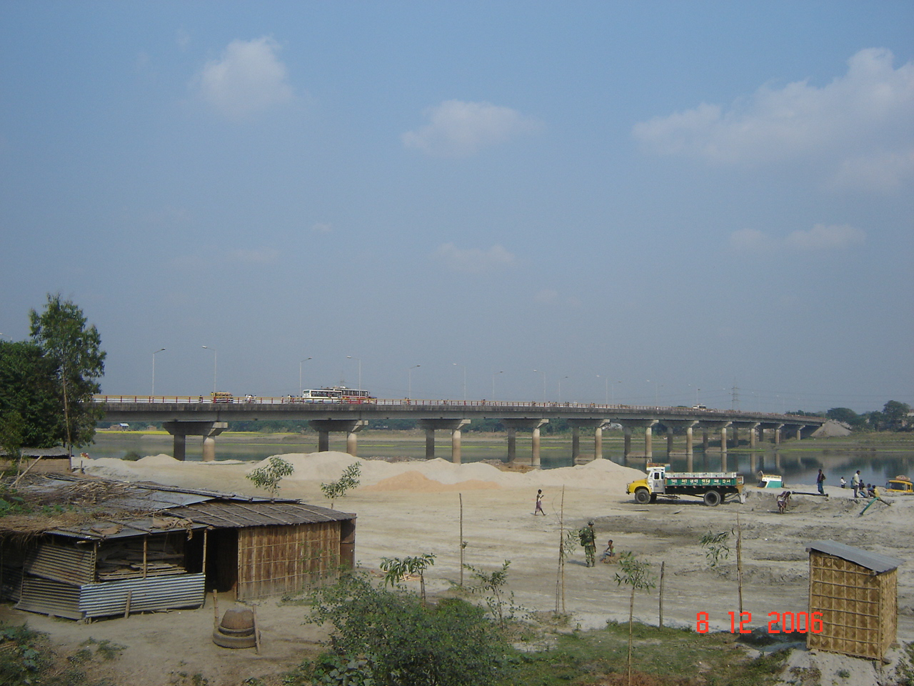 Mymensingh-Shombhugunj bridge at Mymensingh